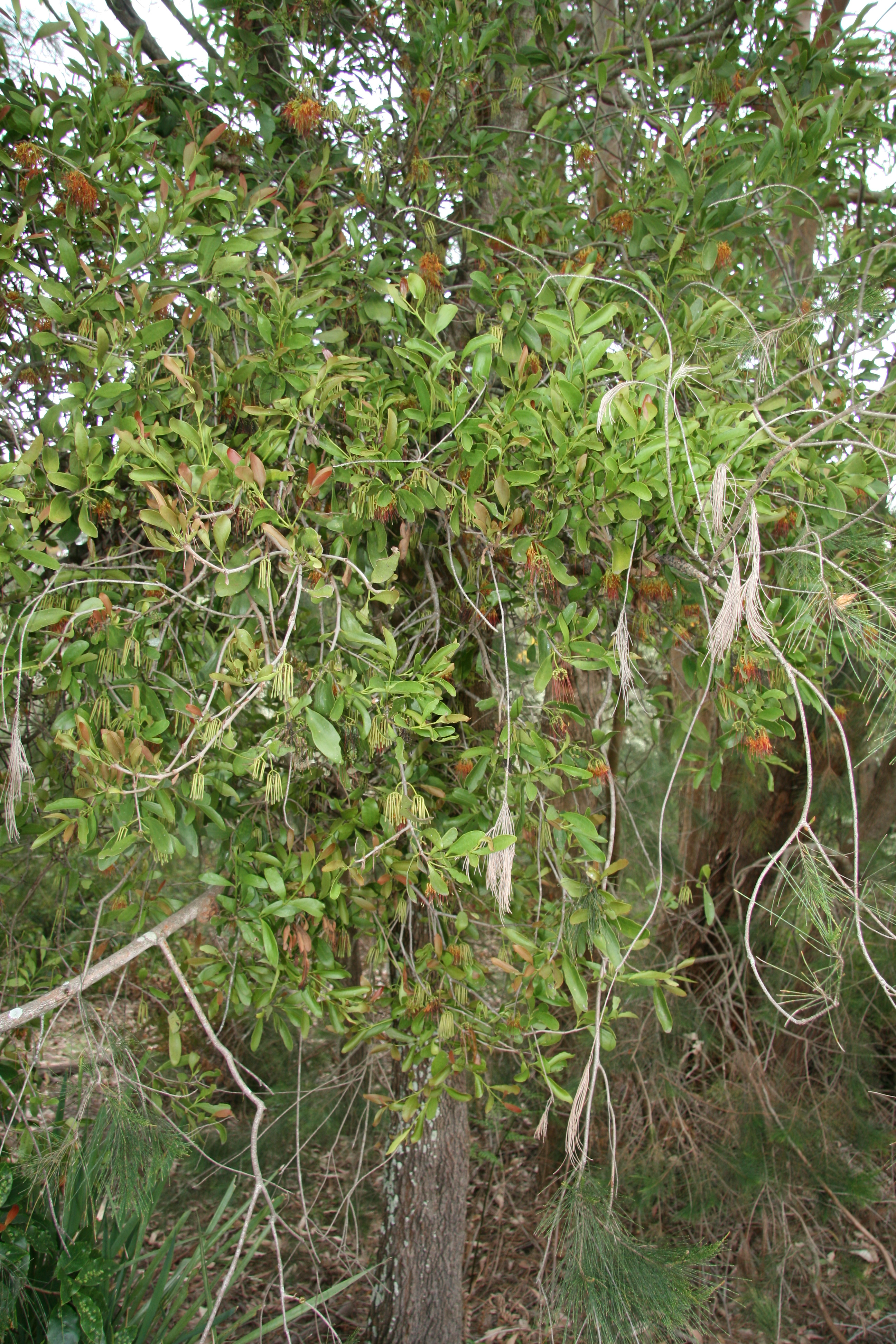 Amyema congener congener, Bottom of NGH (on Allocasuarina torulosa)